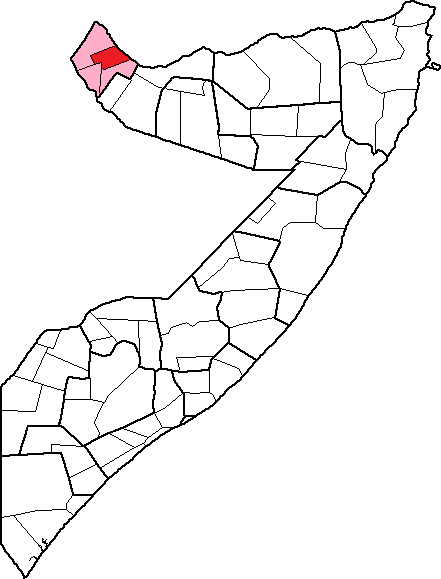 Location of the Lughaye district in the Awdal region, Somalia. Boundaries reflect those endorsed by the Republic of Somalia in 1986.